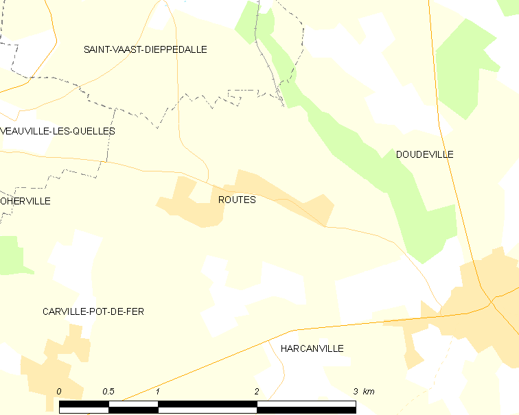 Map of French municipality Routes